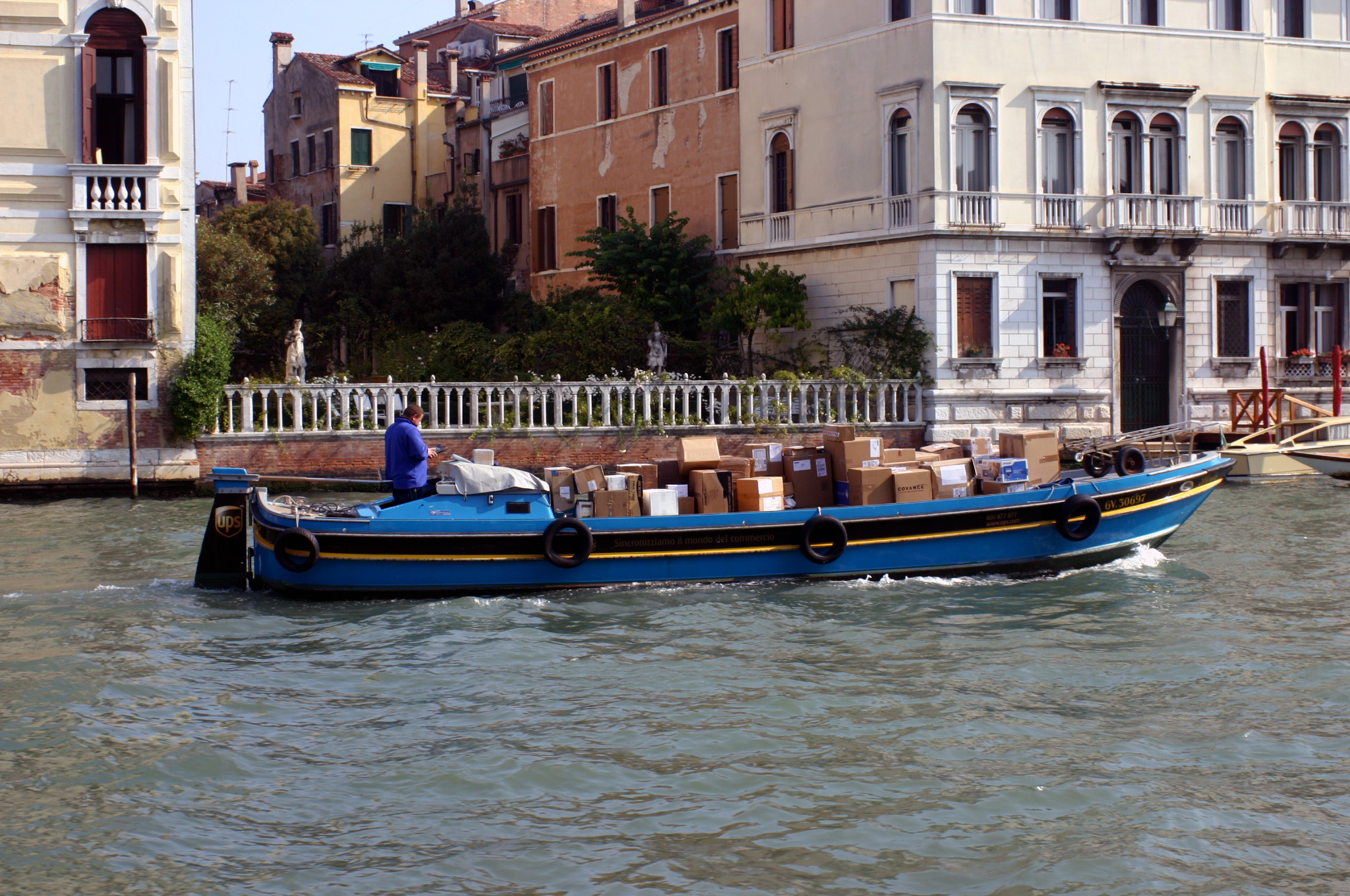 Venice, UPS Boat on Canal Grande